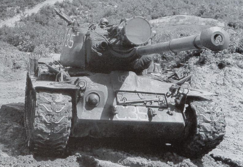 M46 Patton of Marine 1st Tank Battalion, equipped with 18-inch searchlight